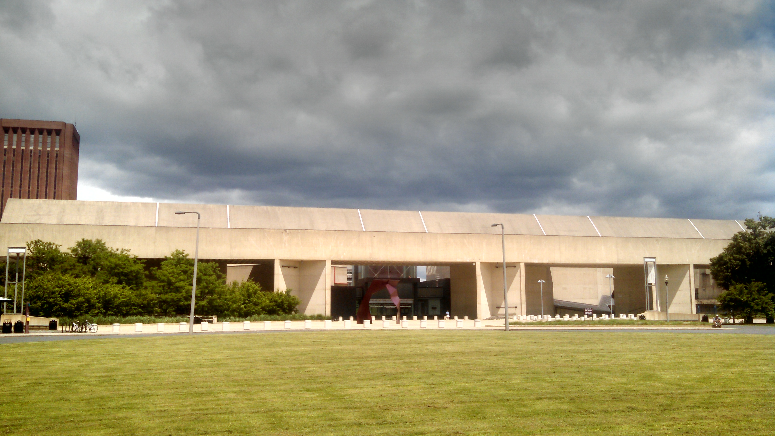 The University of Massachusetts_Amherst Fine Arts Center in June of 2014.